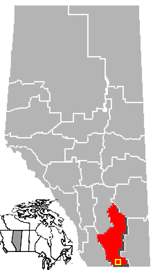 Location of Milk River, Census Division No. 2, Albera